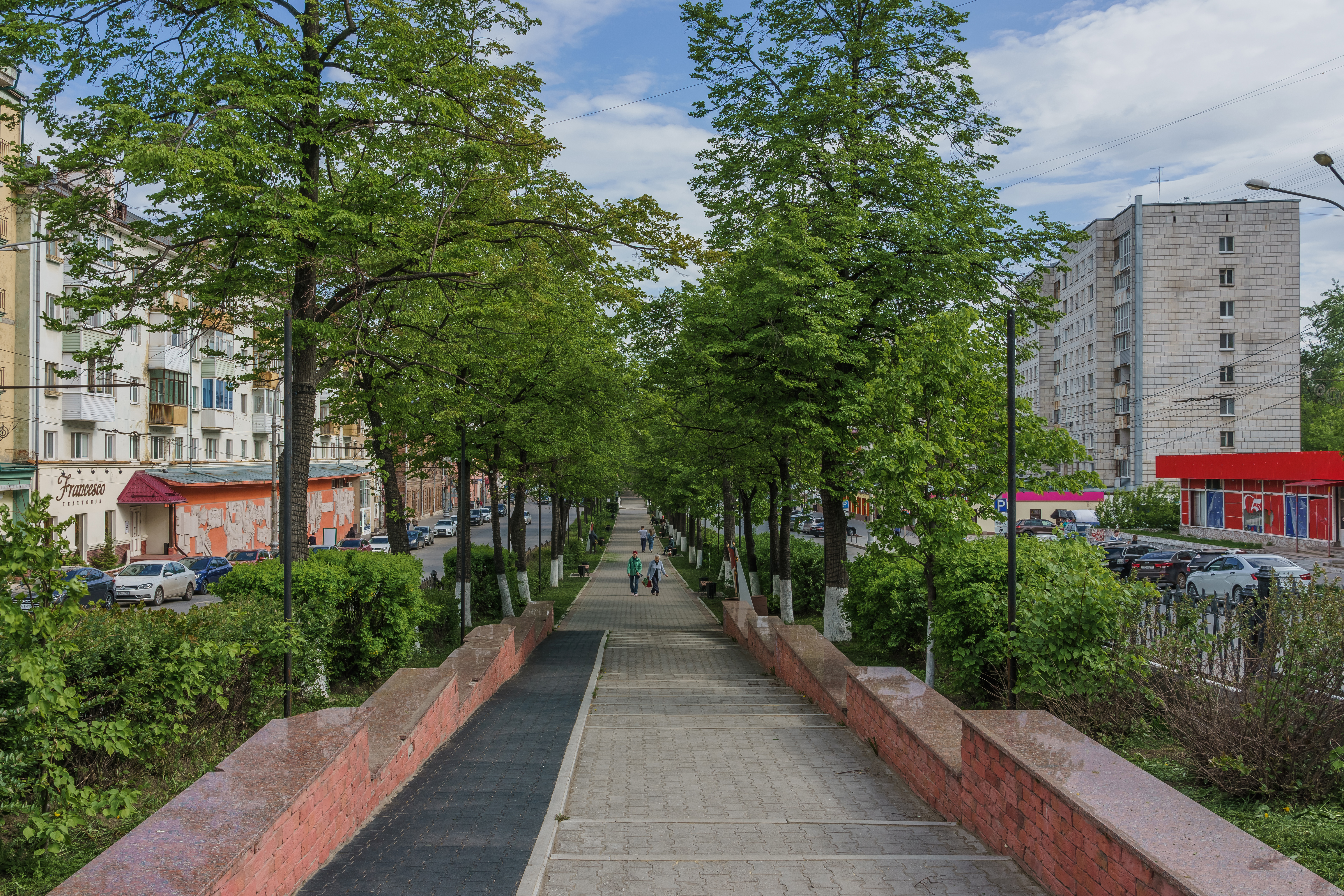 Komsomolsky Avenue near Monastyrskaya Street in Perm, Russia